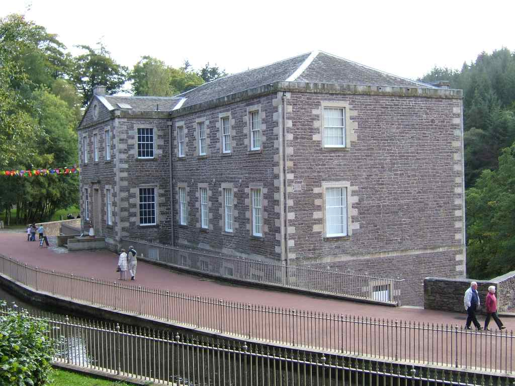 New Lanark World Heritage village in Scotland. View of school. * Source: self made * Author: R Pollack, 18th August 2005